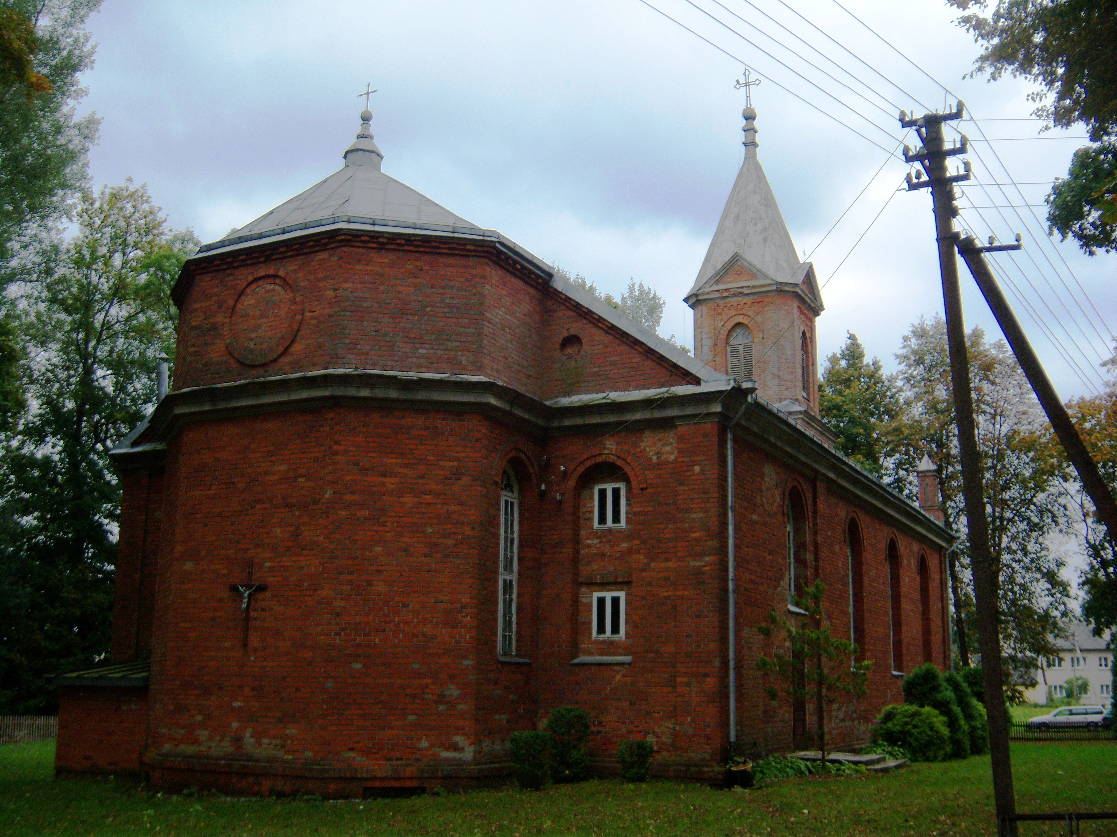 Roman Catholic Church, Didvyžiai, Vilkaviškis District, Lithuania